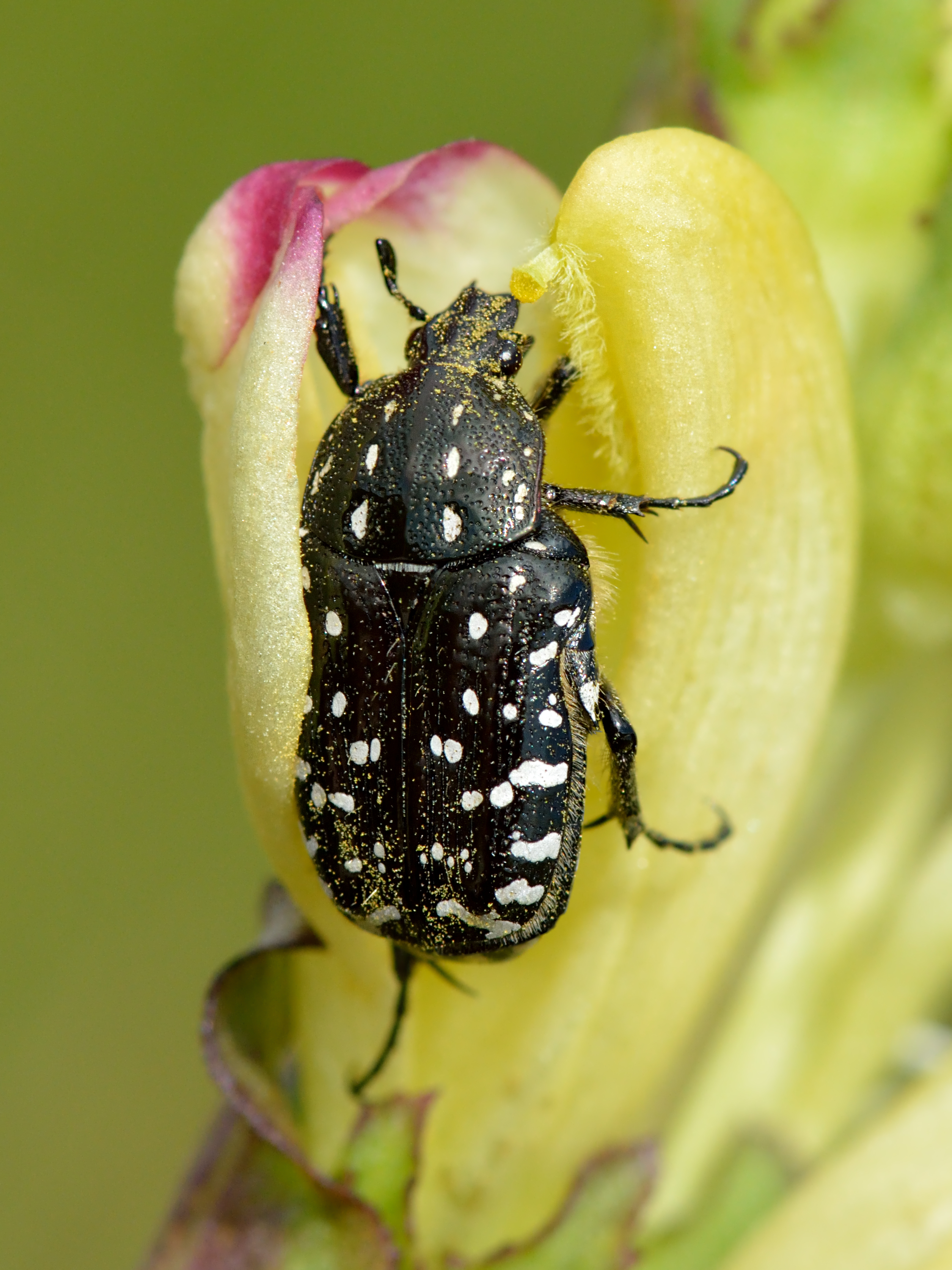 White-spotted rose beetle (Oxythyrea funesta) on the moor-king lousewort flower (Pedicularis sceptrum-carolinum). Only strong insects can open moor-king (which is very rare and protected plant in Europe) flowers. Niitvälja Bog, Northwestern Estonia.